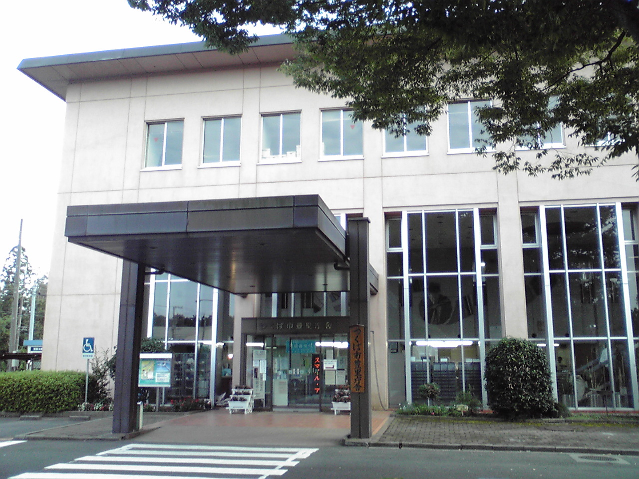 This is a building of Tsukuba city hall Toyosato branch (Japan).